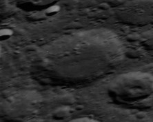 Oblique view of Polzunov, on the far side of the moon. Facing east (north is at left).